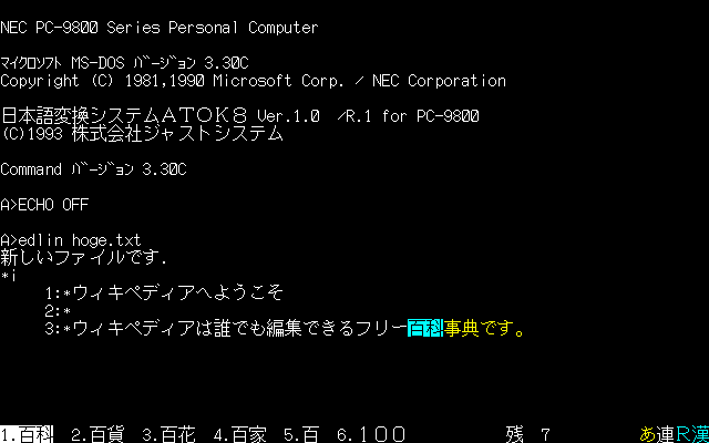 Screenshot of EDLIN typing Japanese with ATOK 8 input method, runnning in MS-DOS 3.3C for PC-9800 series.